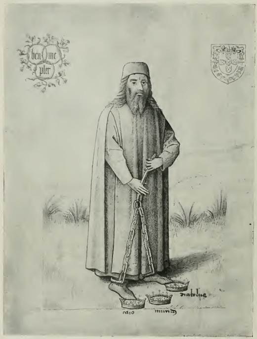 Image of Ferdinand the Saint Prince of Portugal (d.1443, Fez). Image (unknown author) originally in Martirium pariter et gesta magnifici ac potentis Infantis Domini Fernandi, magnifici ac potentissimi Regis Portugalie filii, apud Fez pro fidei zelo et ardore et Christi amore Vatican (Vatican Library, Latin Codex 3643). Dated somewhere between 1451 and 1471. Reproduced in José Pijoán (1914) "Miniaturas españolas en manuscritos de la Biblioteca Vaticana", Escuela Española de Arqueología e Historia en Roma: Cuadernos de Trabajo, vol. 2, p.14